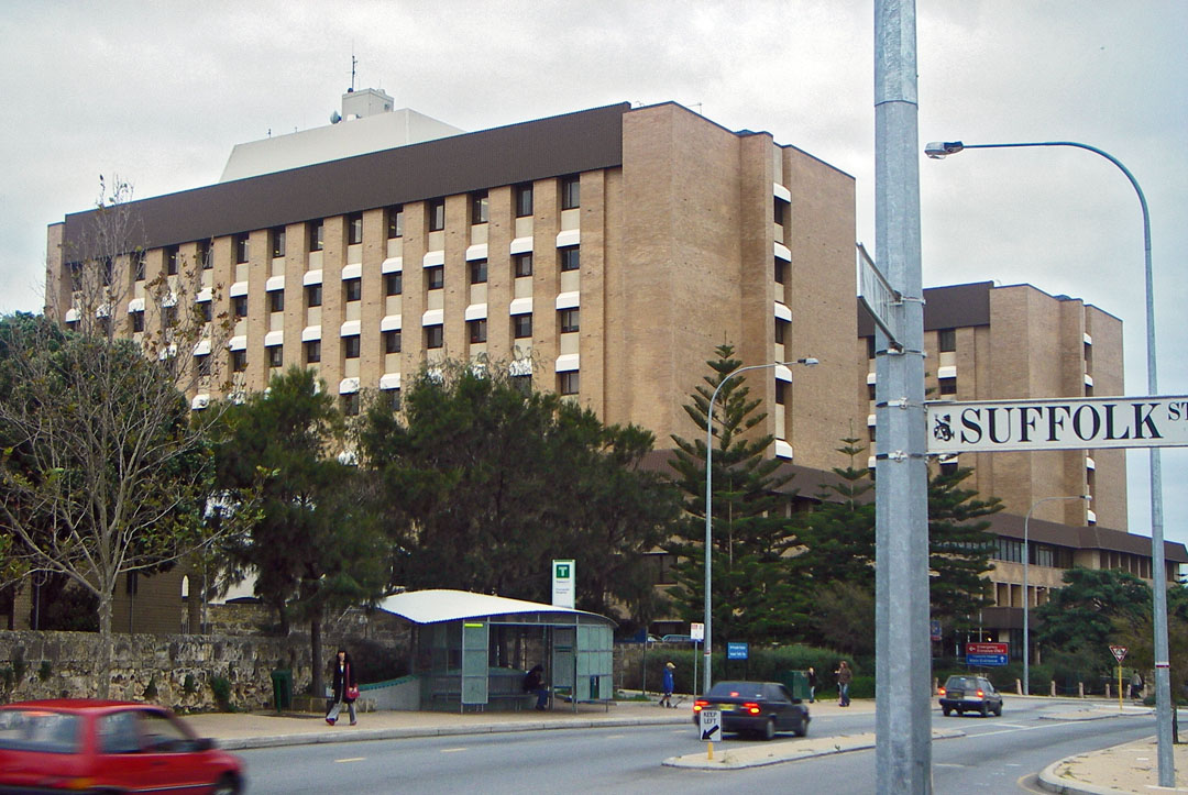 Fremantle Hospital, taken by me with a pentax Optio WP